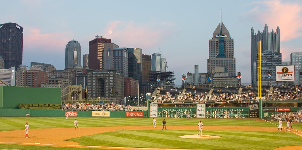 Dusk sets in on an evening game at PNC park.